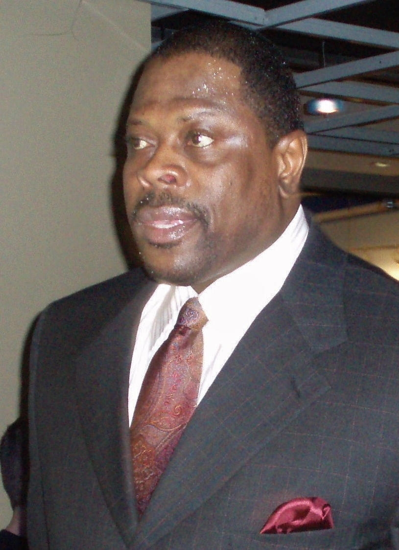 Patrick Ewing as assistant coach of the Orlando Magic.